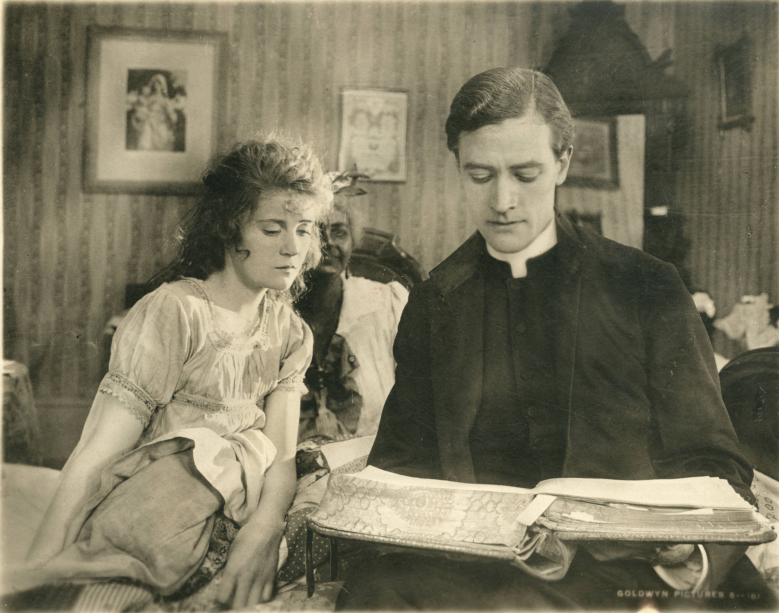 Mae Marsh in a scene from the American drama film Polly of the Circus (1917), which opened at the Strand Theater, Seattle, Sept. 22, 1917. Subjects: actresses, motion pictures